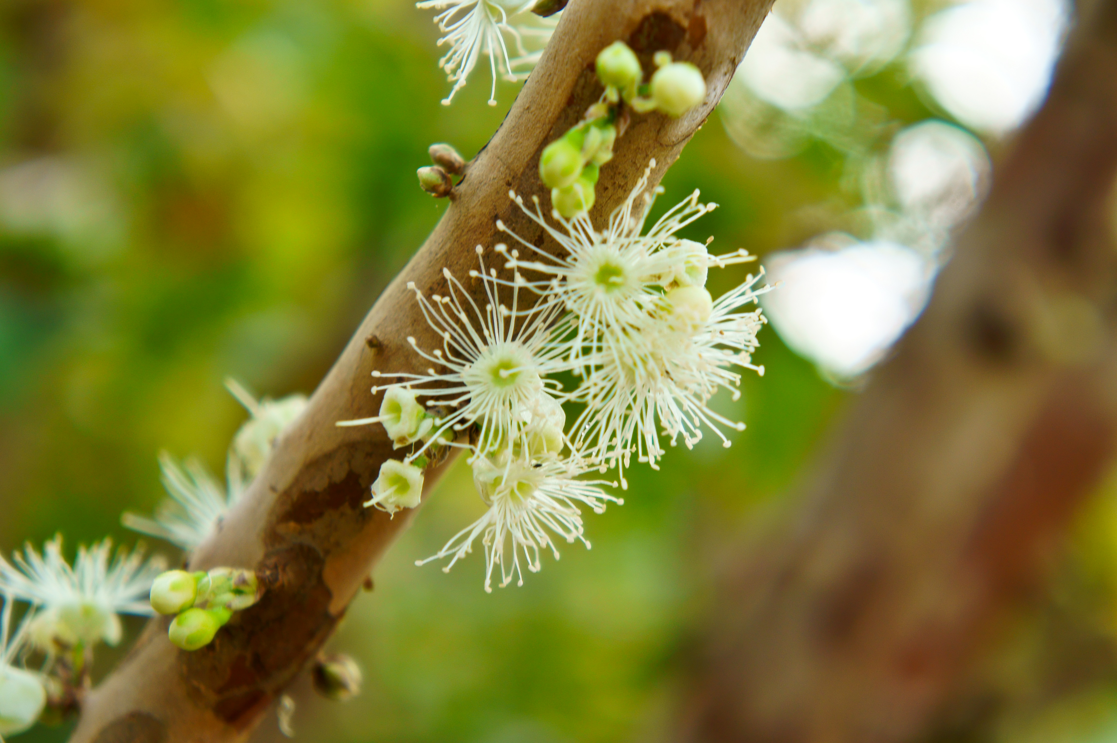 Jabuticaba flower